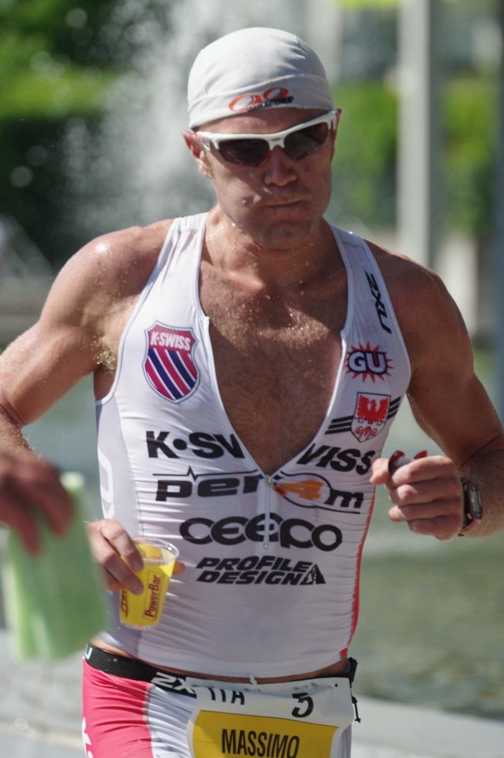 Italian triathlete Massimo Cigana in the Ironman 70.3 Austria on 20 May 2012 in St. Pölten.